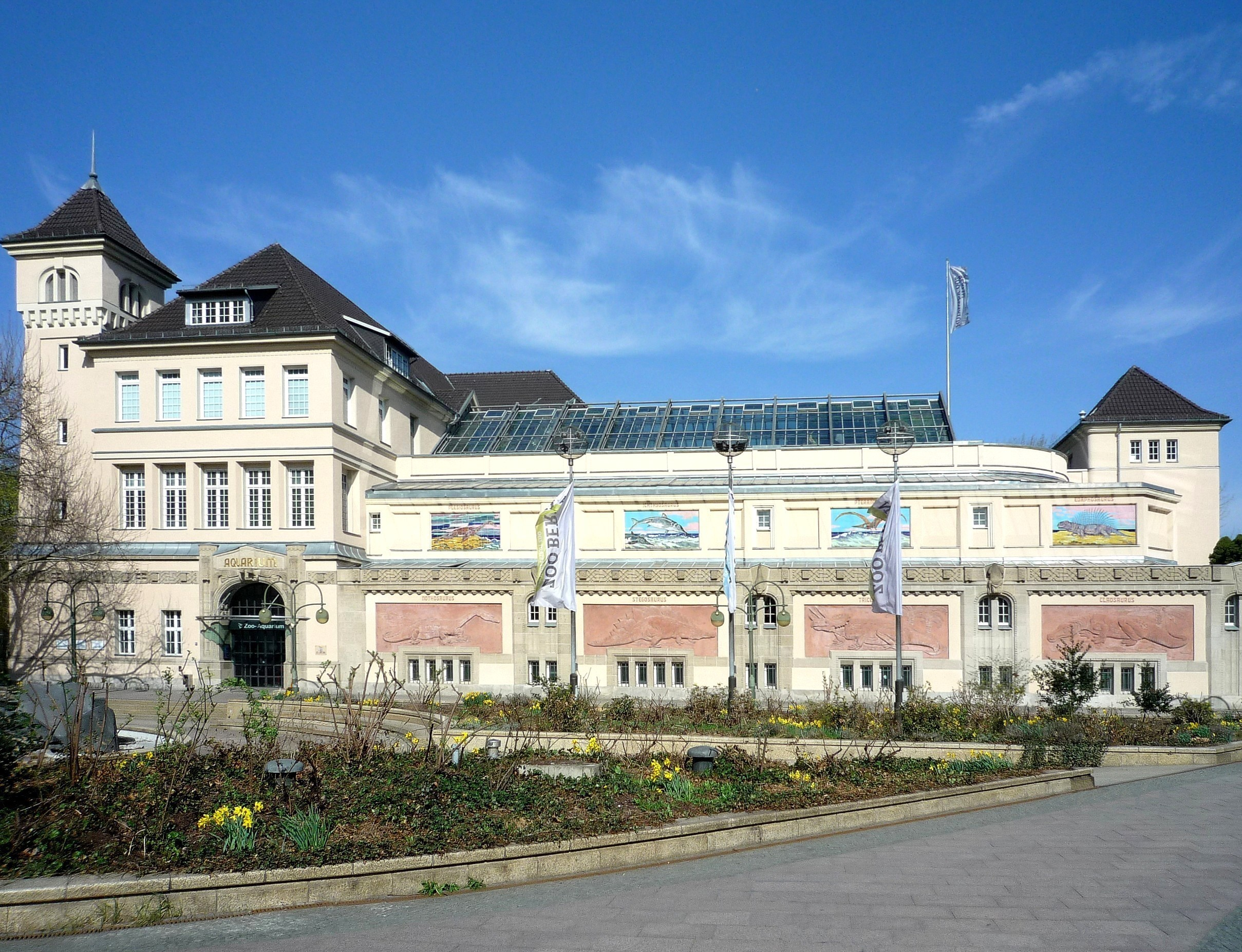 Zoo Berlin, facade of the main building with entrance at Olof-Palme-Platz.